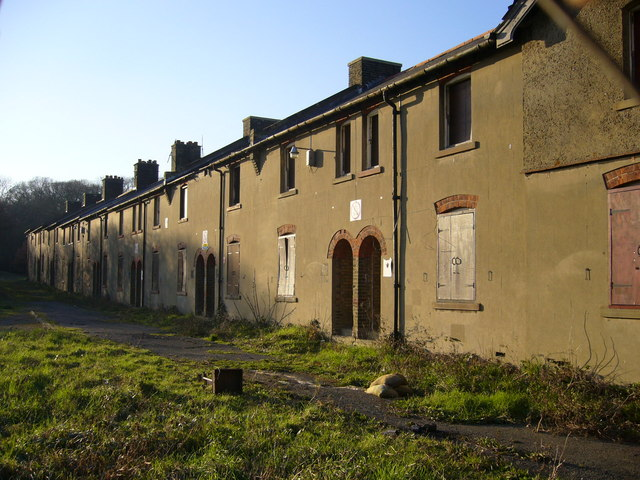 Central Terrace part of the derelict Chattenden Barracks area. Presumably these were housing for married NCOs.